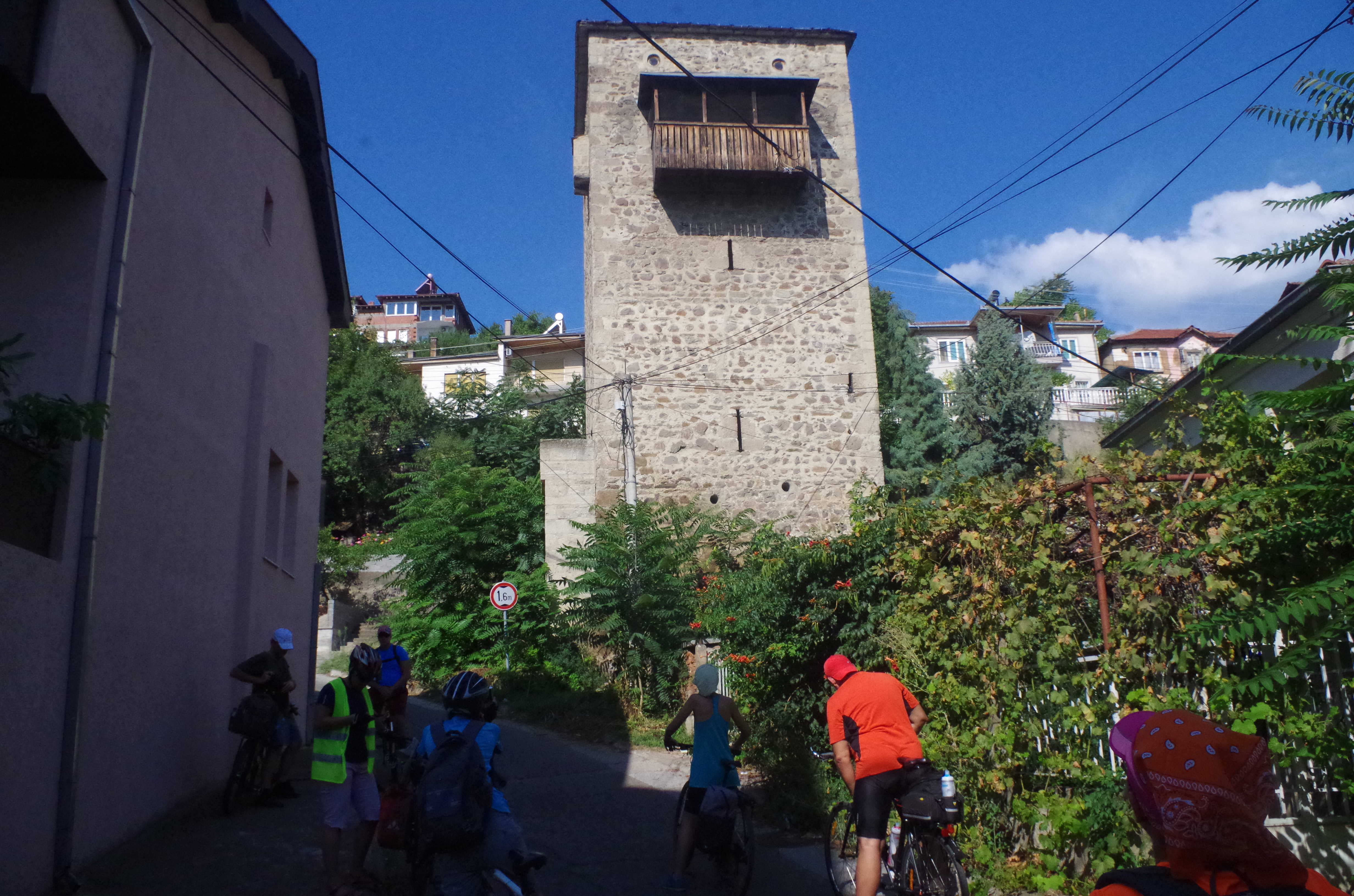 Medieval guard tower in Kochani, Macedonia